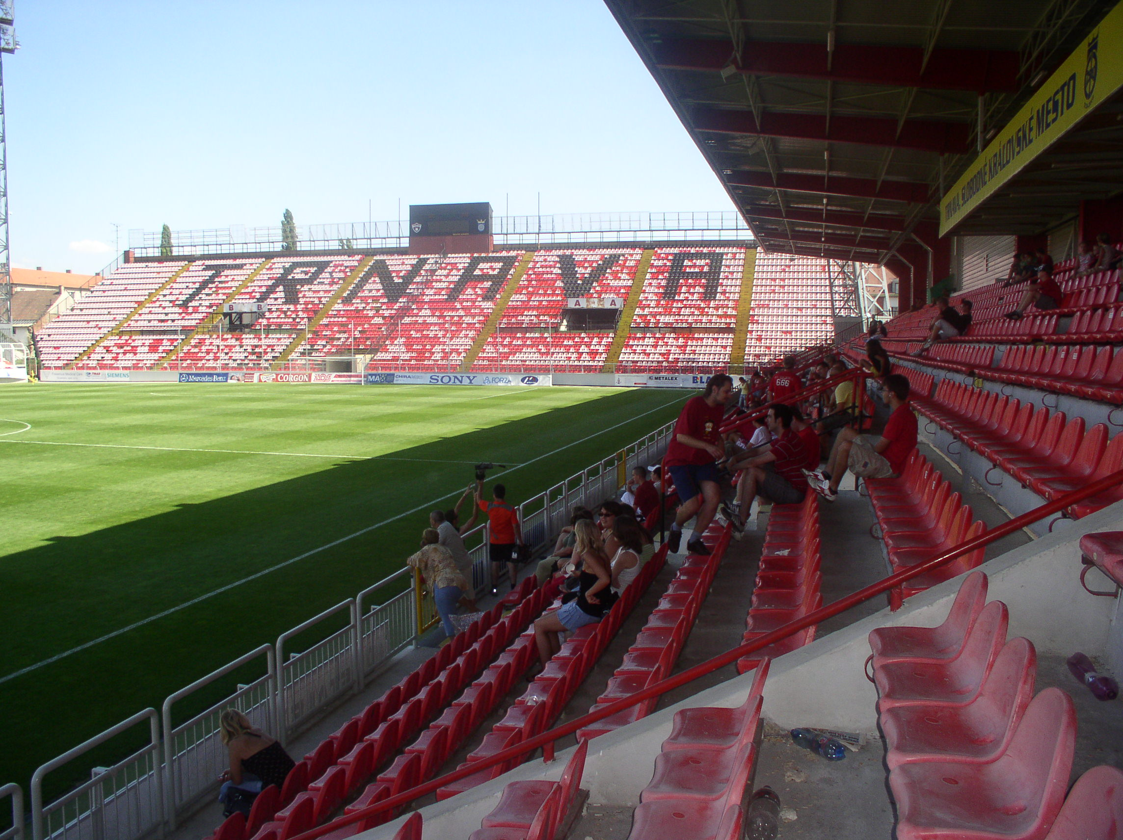 Stadium